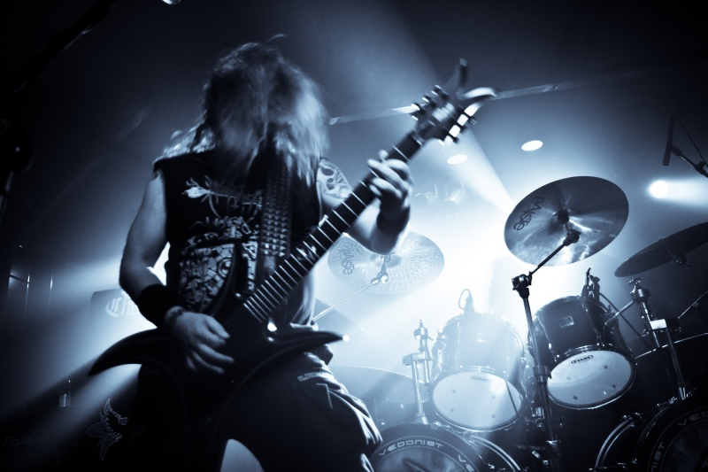 Cezary Augustynowicz of Christ Agony Polish black metal band, Kraków, Loch Ness, 14.10.2010